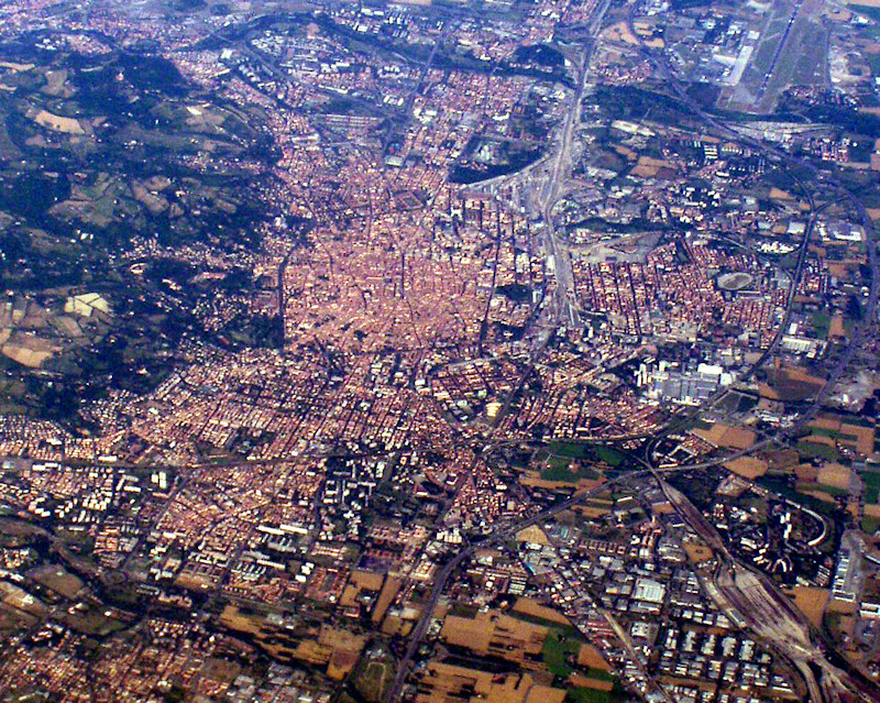 Aerial view of Bologna, Emilia-Romagna, Italy.